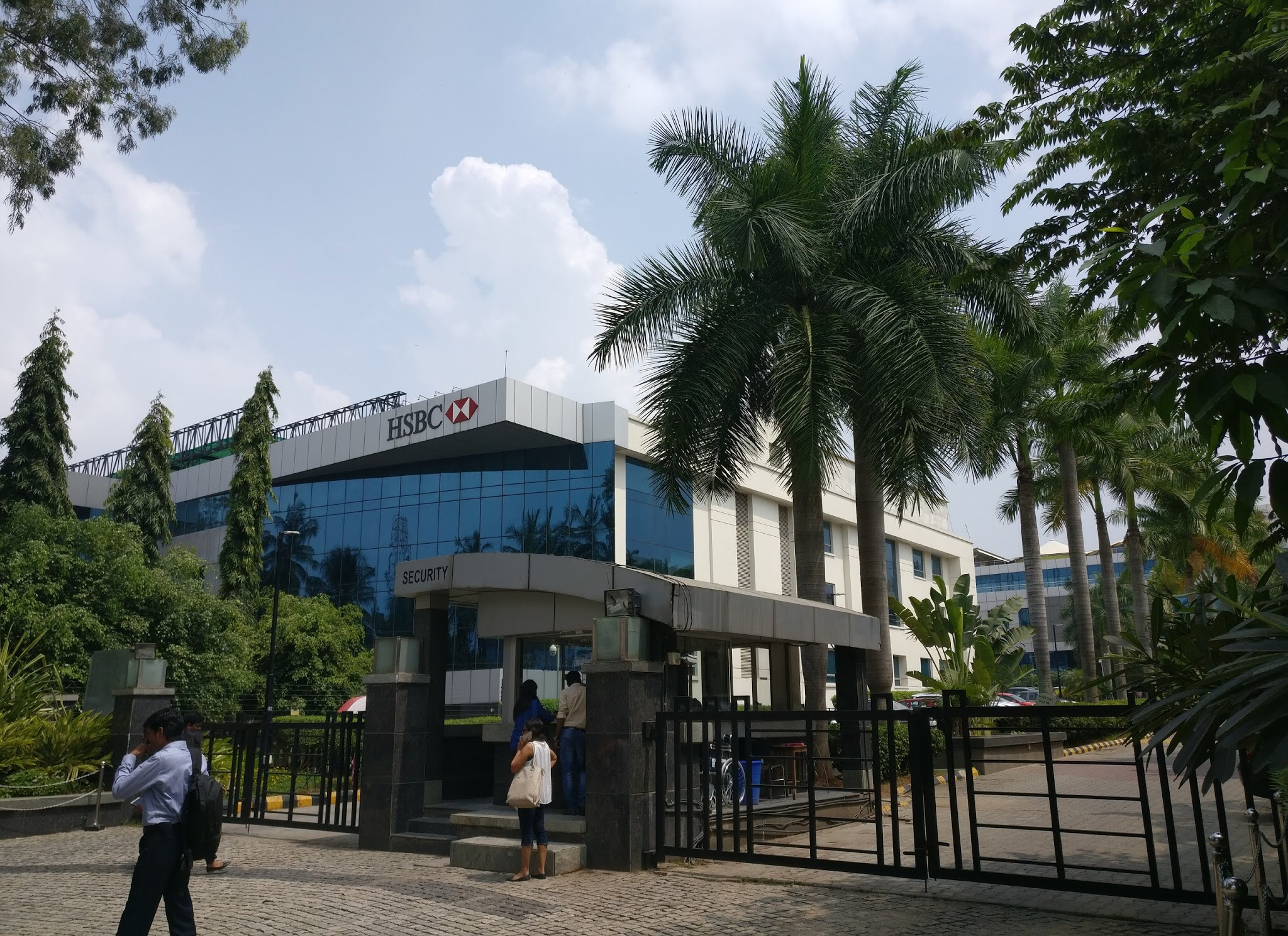 HSBC Electronic Data Processing Building at Sundar Ram Shetty Nagar, Bannerghatta, Bangalore